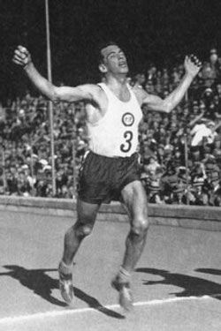 Thore Enochsson at the Stockhom half-marathon